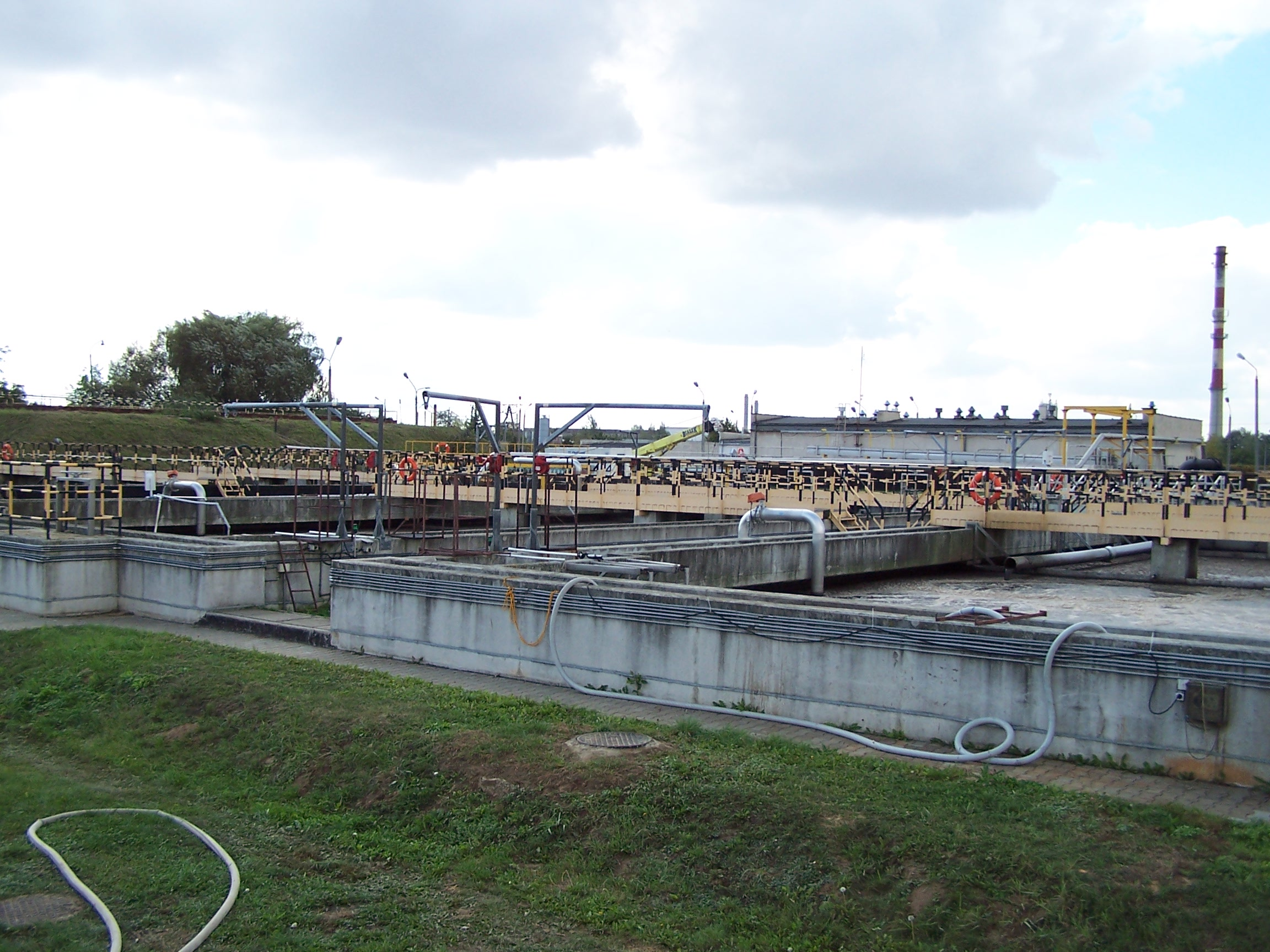 Part of sewage treatment plant in Wieluń